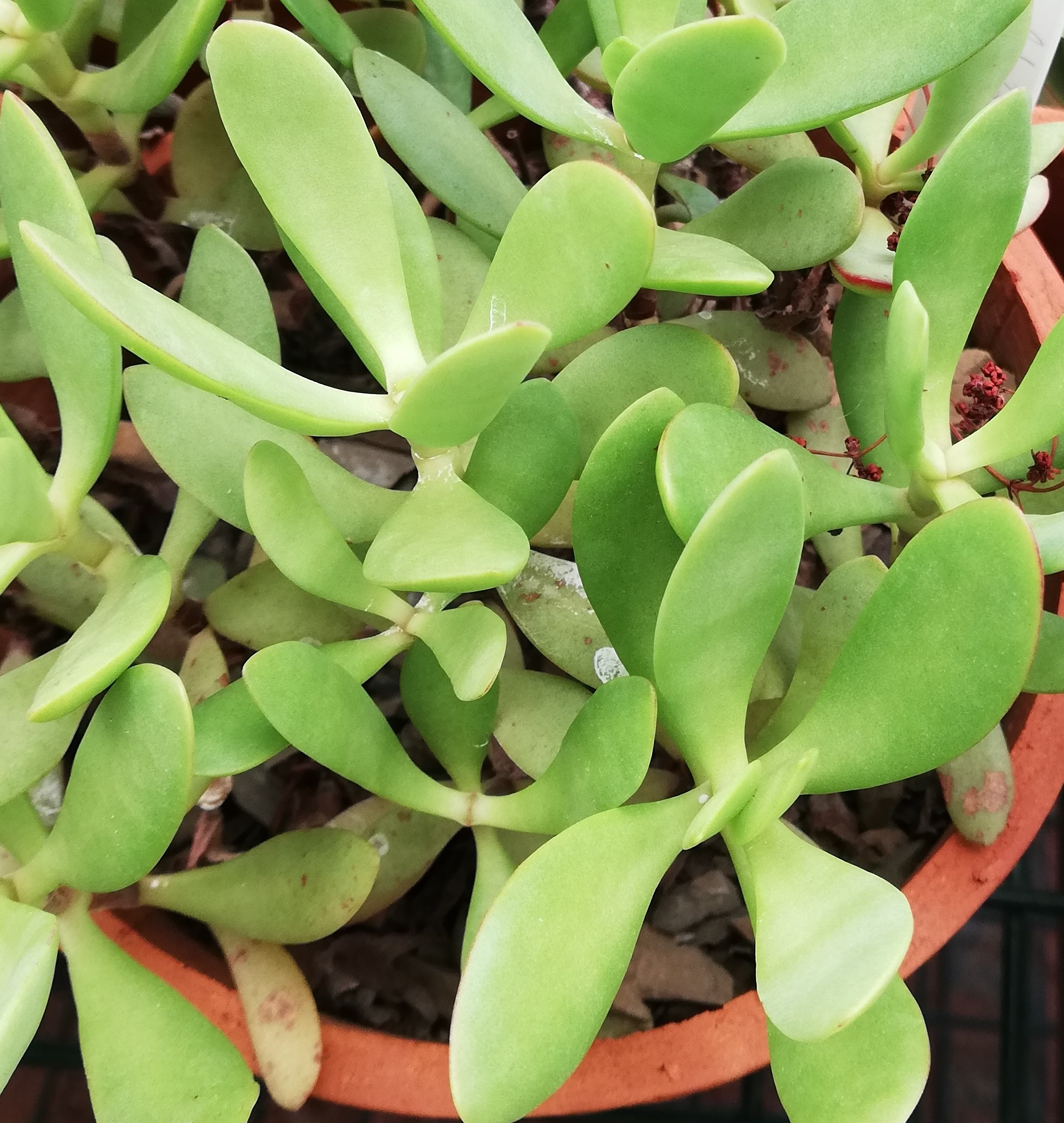 Crassula cultrata in cultivation at Babylonstoren